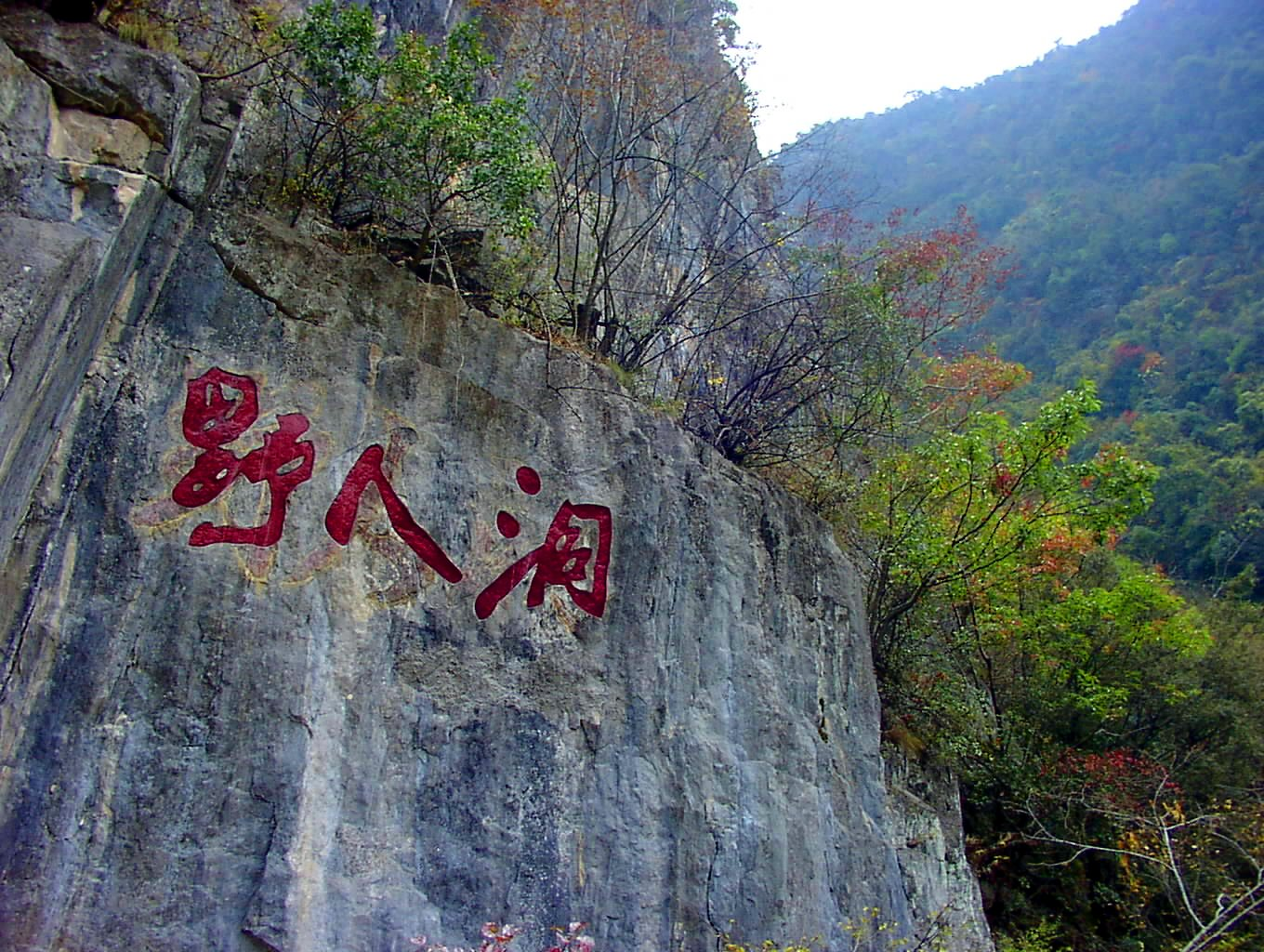 Inscription in cliff face next to the entrance of the "Yeren Cave" in Western Hubei Province, China. The inscription reads "Ye Ren Dong" ("Wild Man Cave").